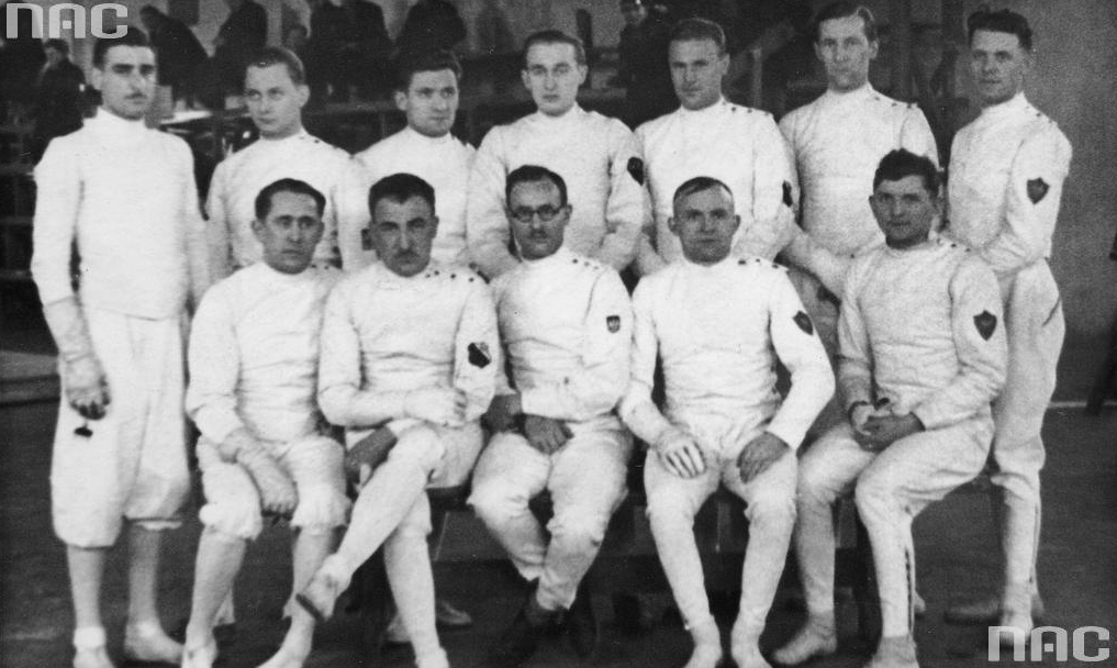 Roman Kantor